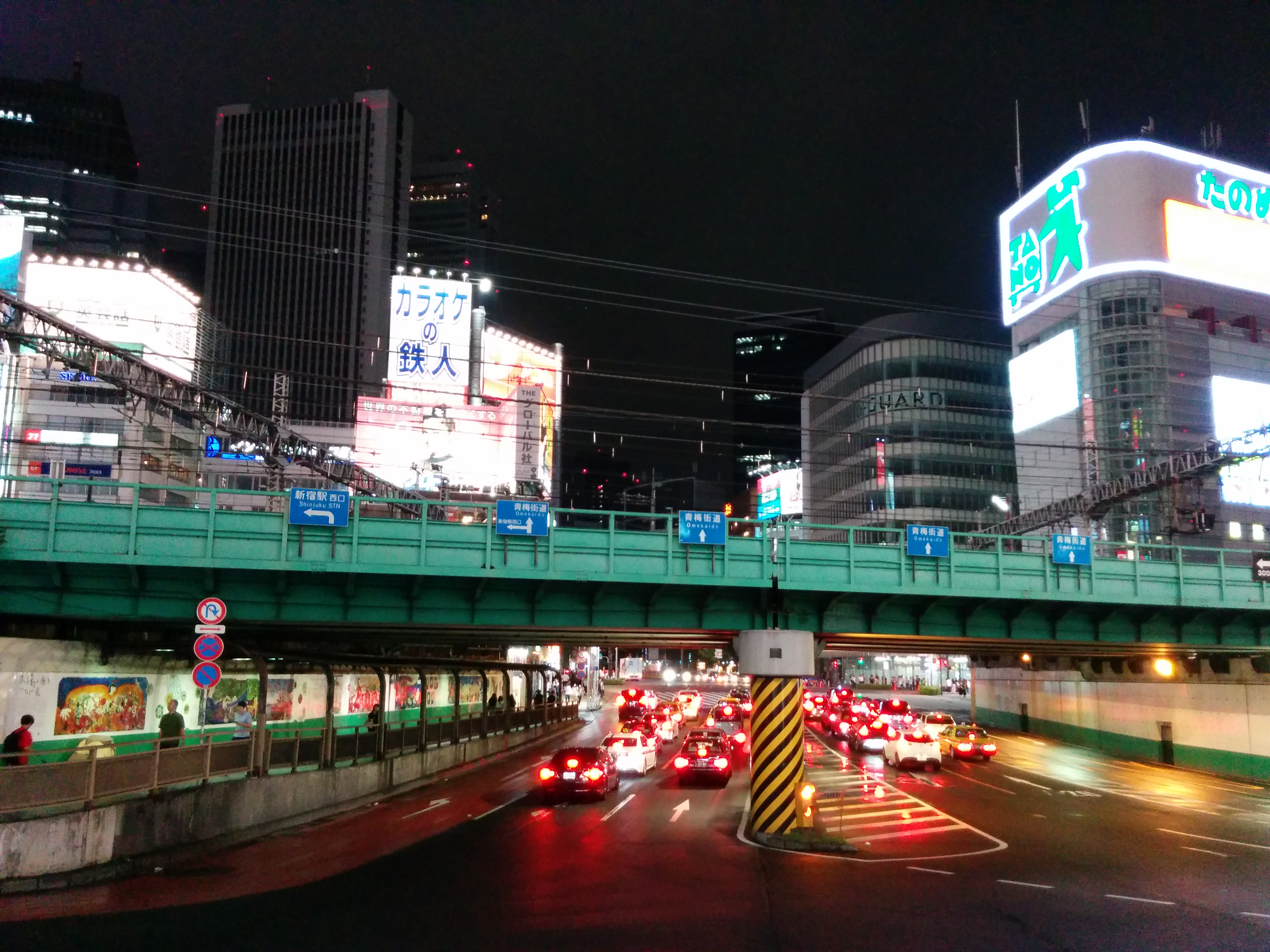 Railroad bridge